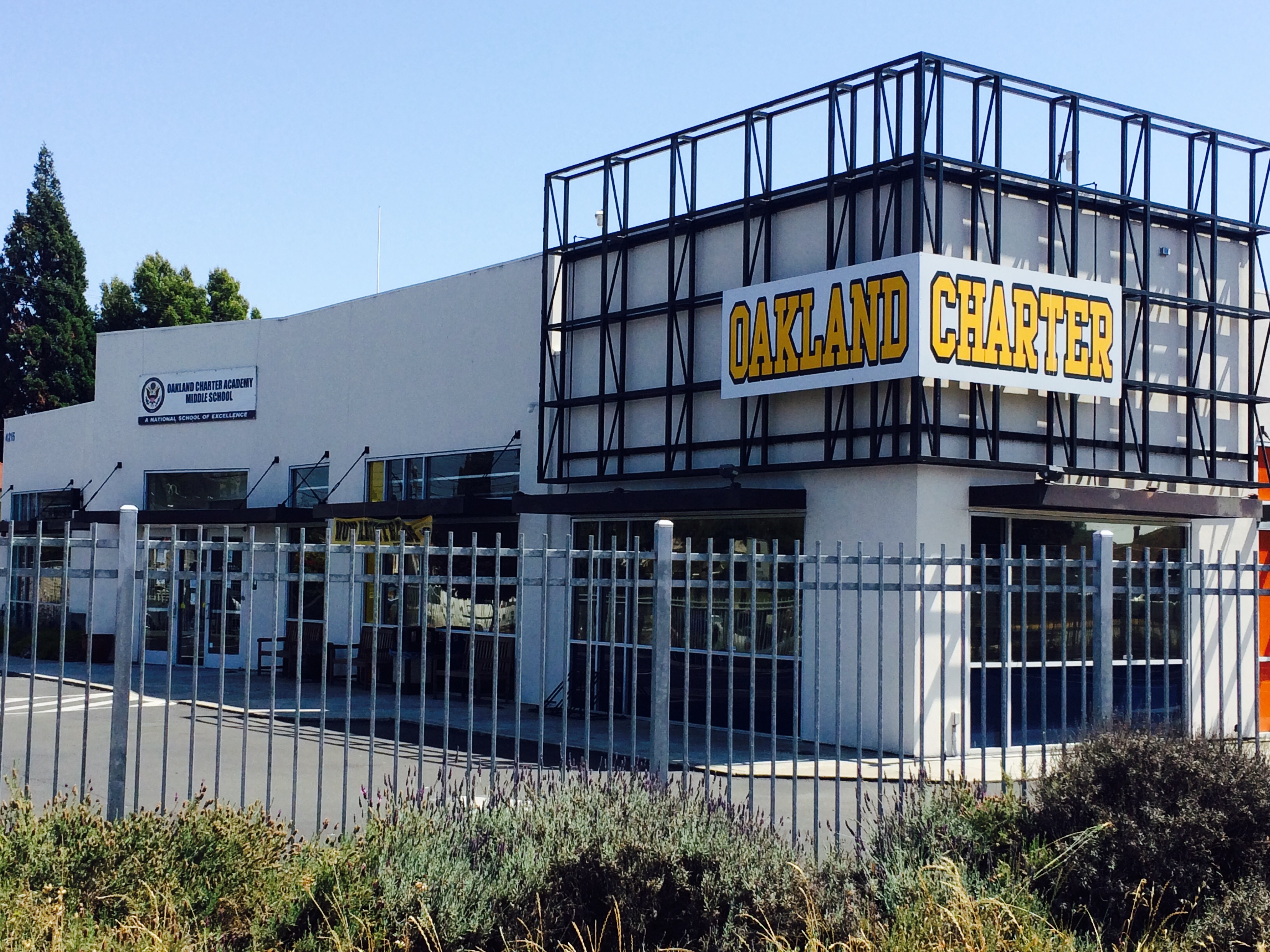 It is an image of a school called Oakland Charter Academy.